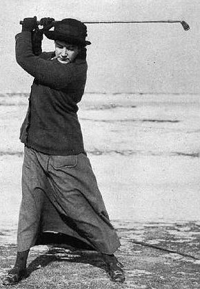 A circa 1907 photograph of golfer Dorothy Campbell Hurd. --EditorExtraordinaire (talk) 20:12, 19 April 2015 (UTC)